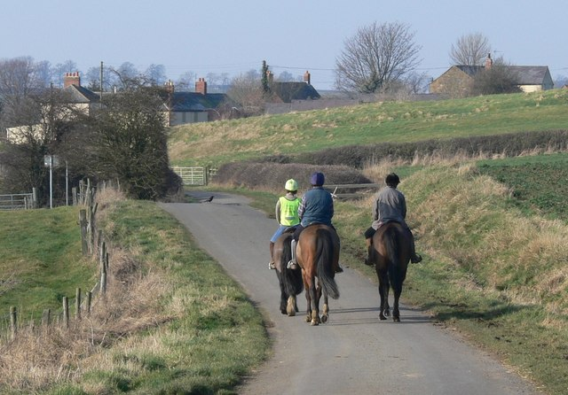 View of riders on horseback approaching the hamlet of Marefield in Tilton Parish, Leicestershire.